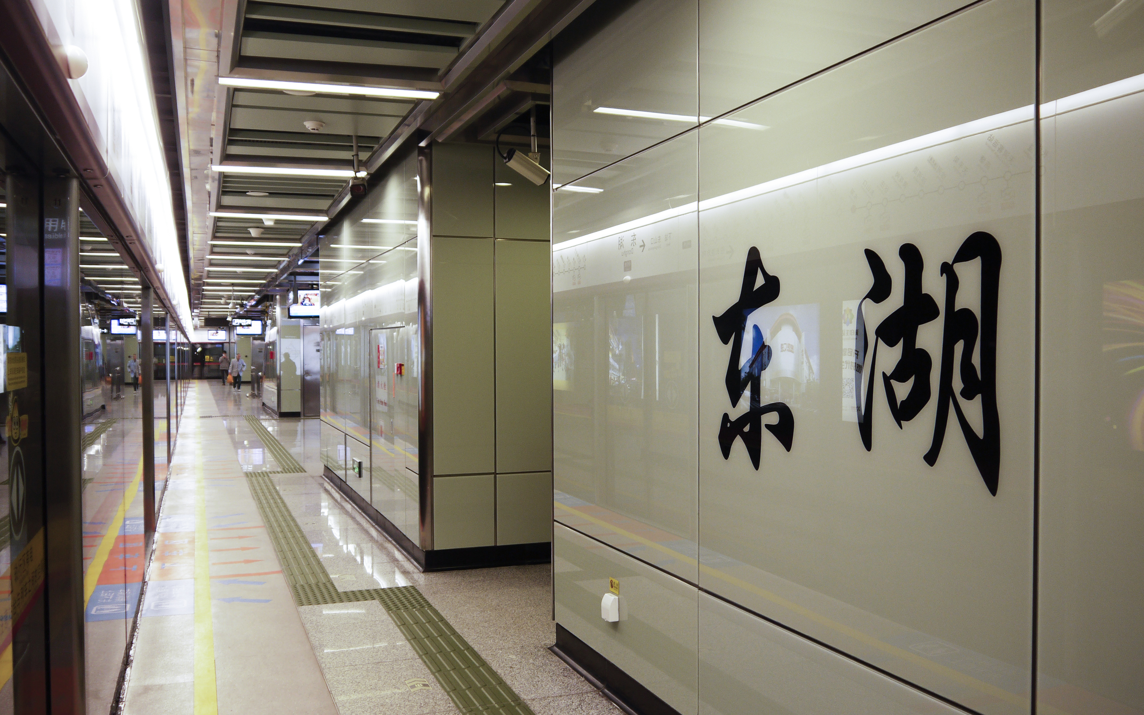 DONG HU STA.